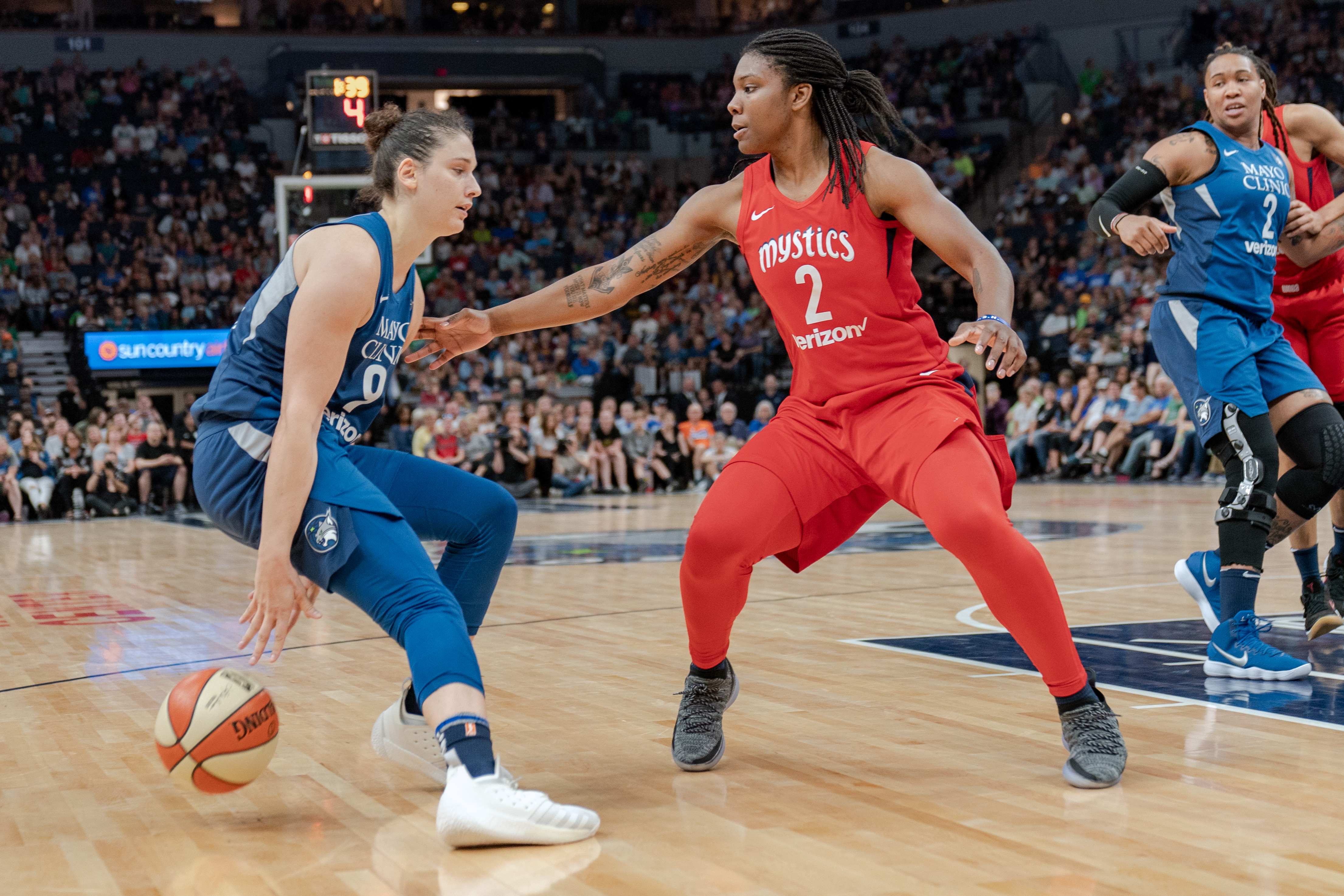 Cecilia Zandalasini (9) dribbles the ball behind her as she's guarded by Myisha Hines-Allen (2). The game was on Sunday August 19, 2018 at Target Center in Minneapolis, MN, the Minnesota Lynx beat the Washington Mystics 88-83